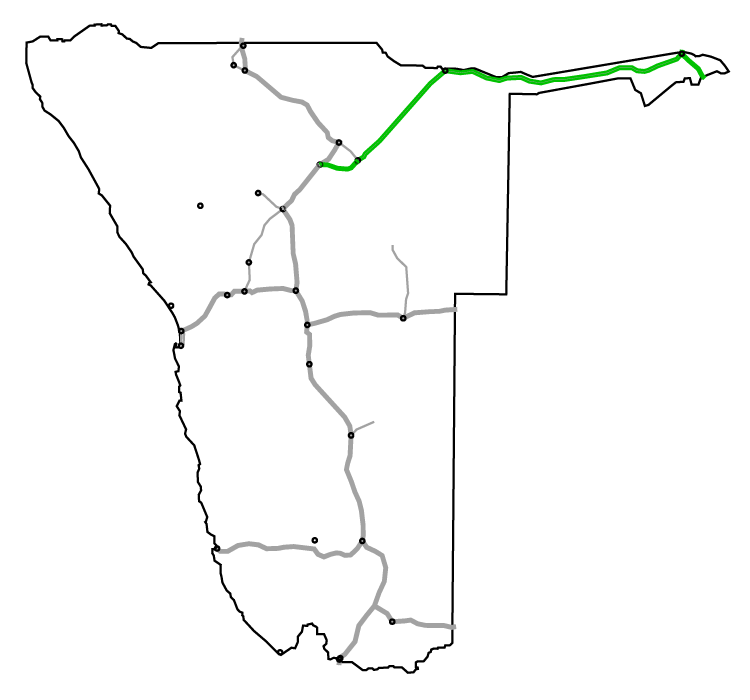 map of the National Road B8 in Namibia